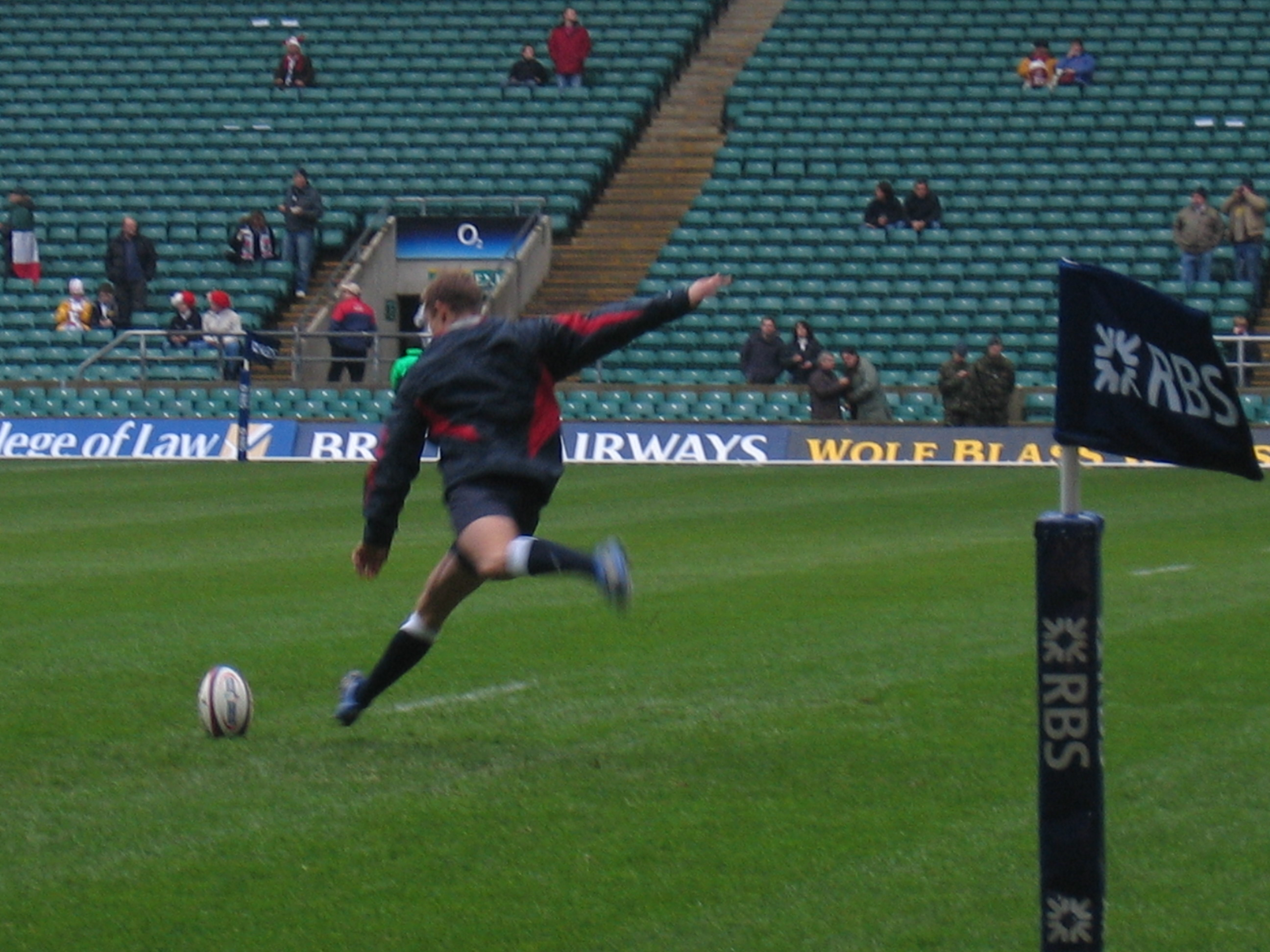 Jonny Wilkinson practising his conversions before England vs. Italy on 10th february 2007, Twickenham